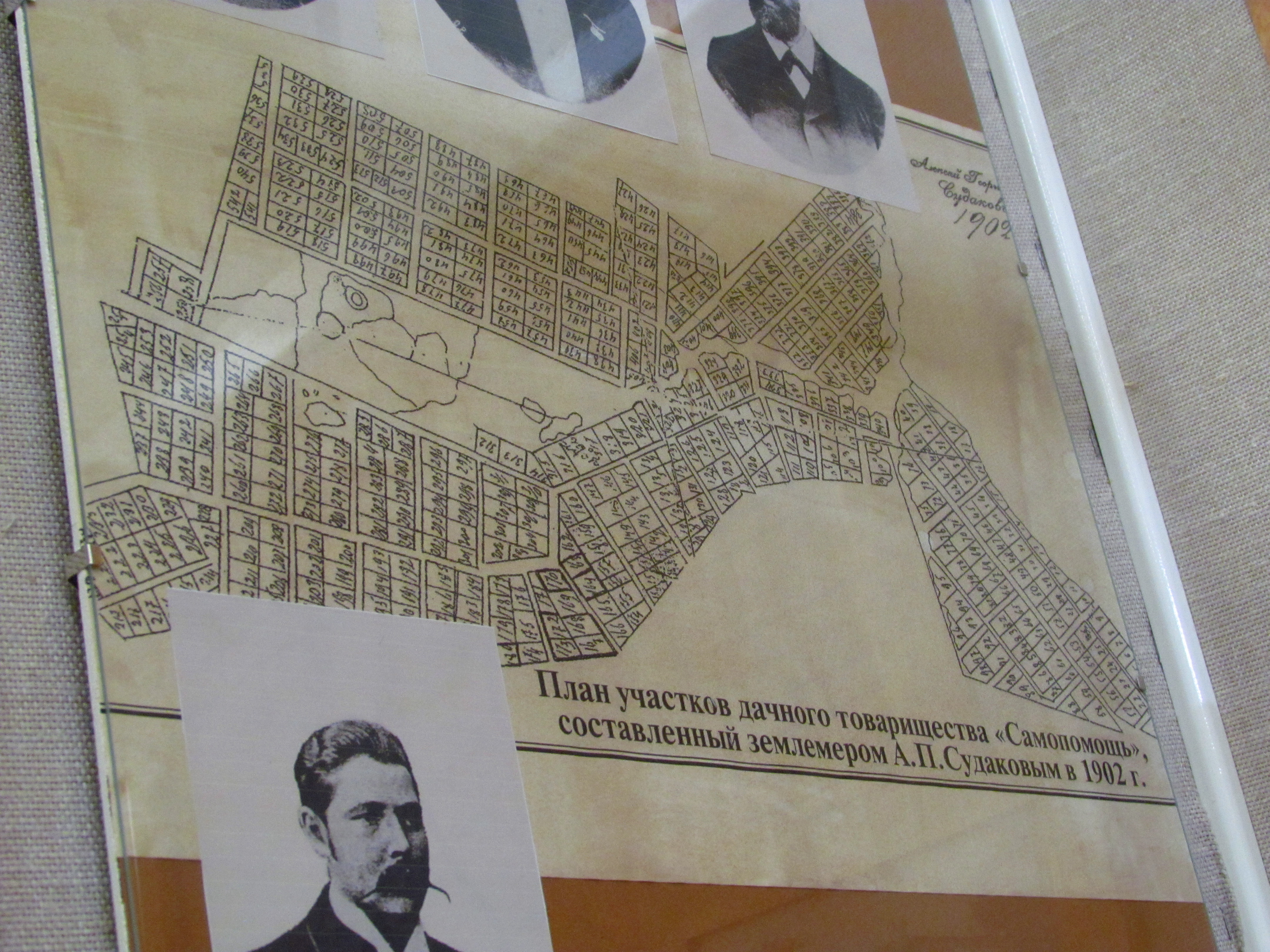 Exposition in Leninskiy District Historical and Cultural Center